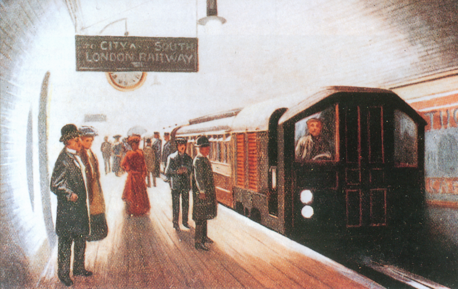 A postcard for the Central London Railway (now the London Underground's Central line) showing a train at Bank station the electric driver's motor car.